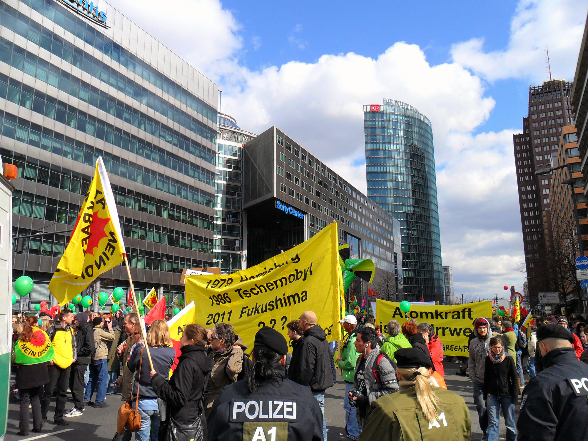 Protest against nuclear energy in Berlin, Potsdamer Platz.